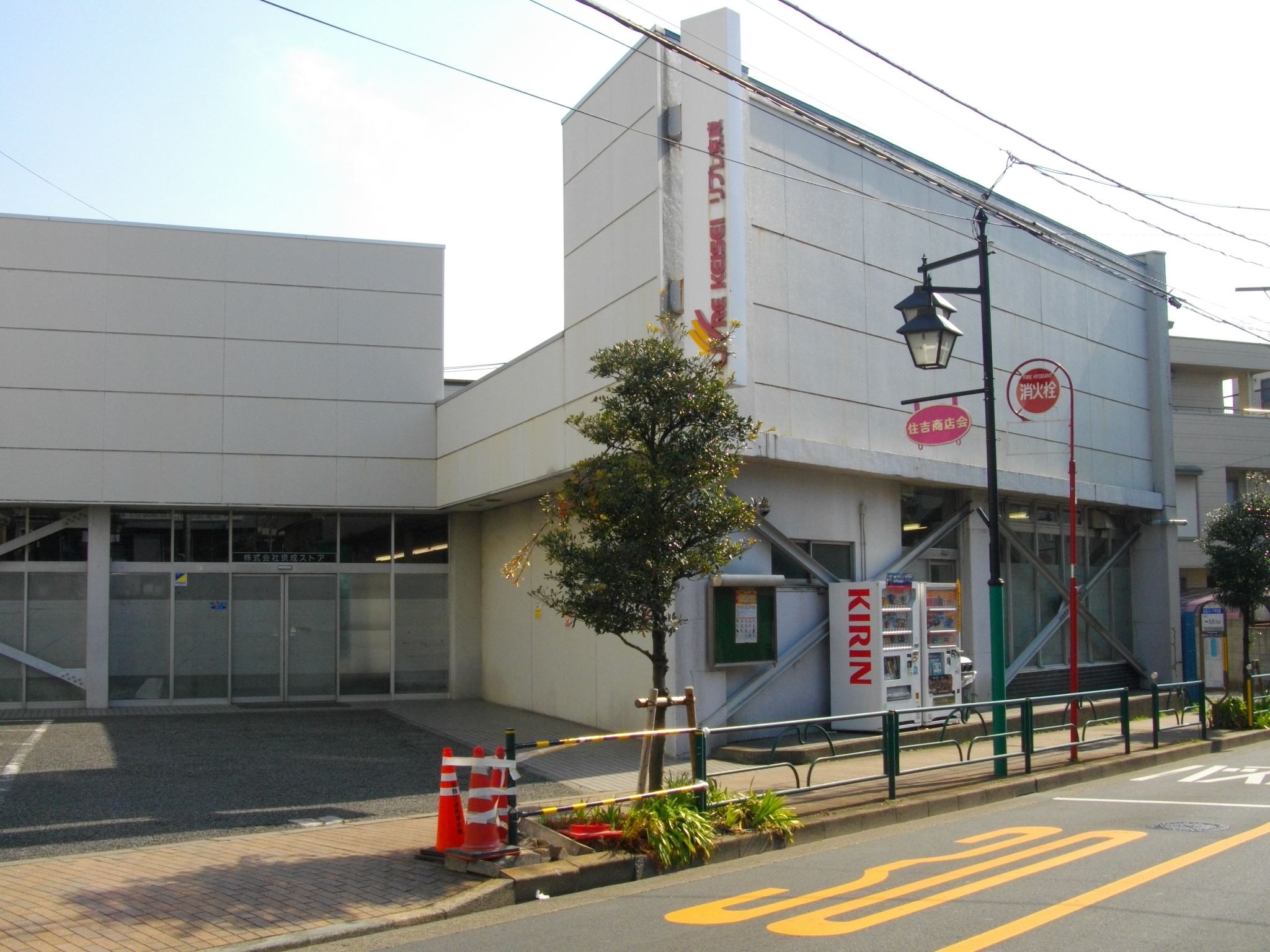 Keisei Store Head Office